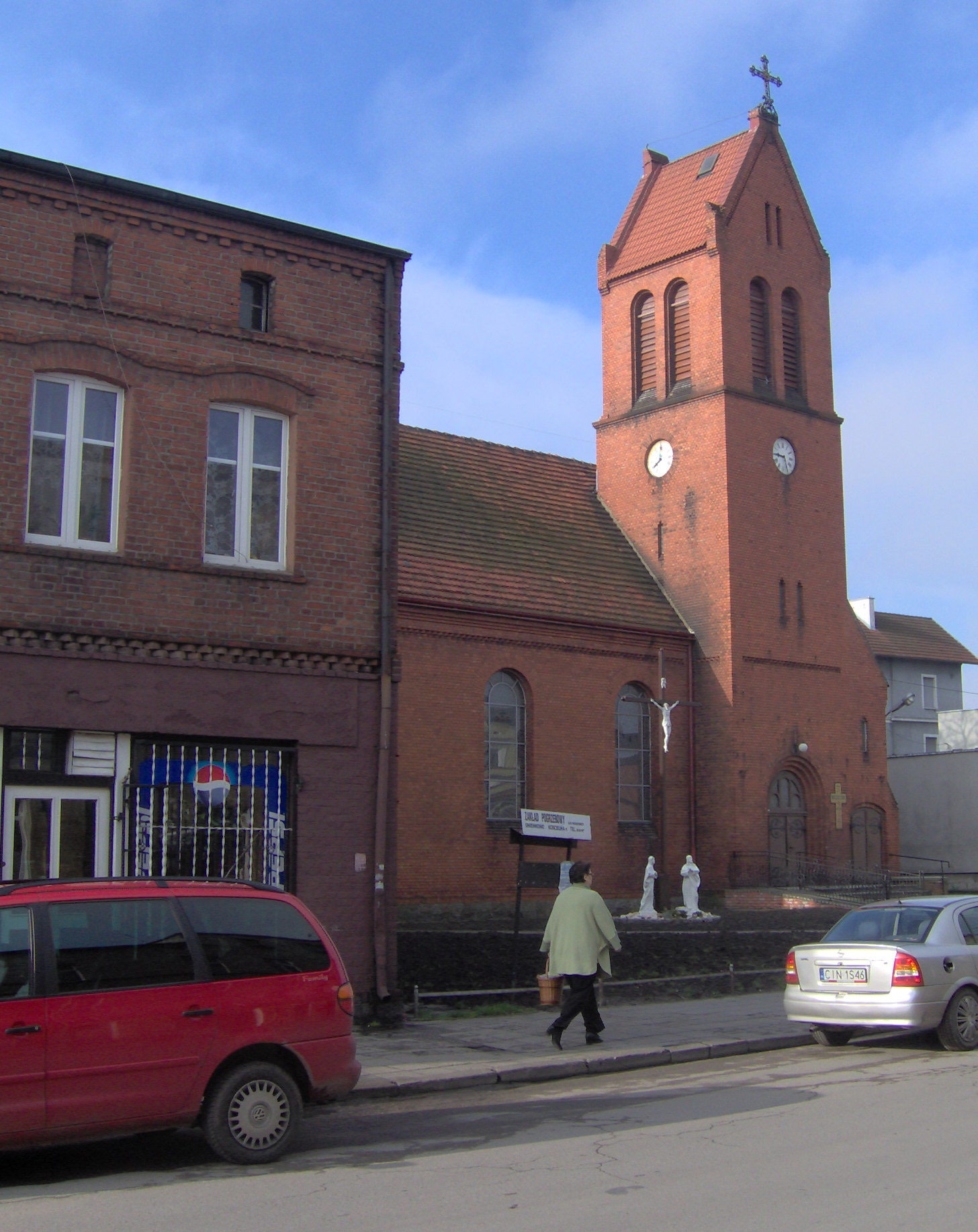 Sacred Heart Church in Gniewkowo, former Evangelical church